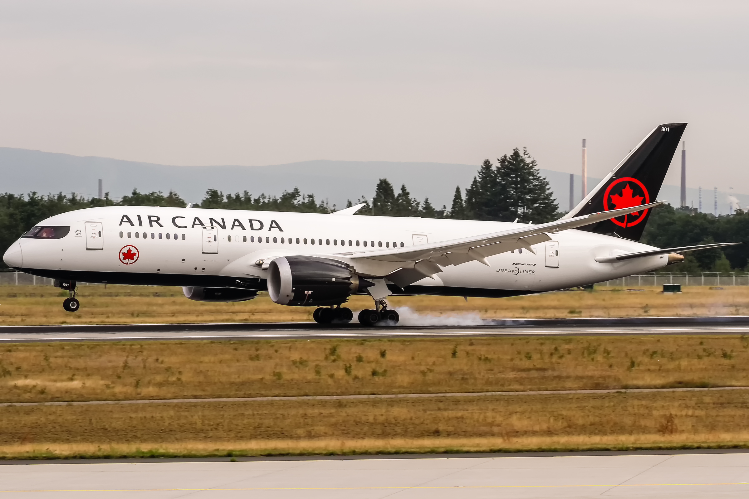 C-GHPQ Air Canada Boeing 787-8 Dreamliner coming in from Montreal (YUL) @ Frankfurt (FRA) / 17.07.2017